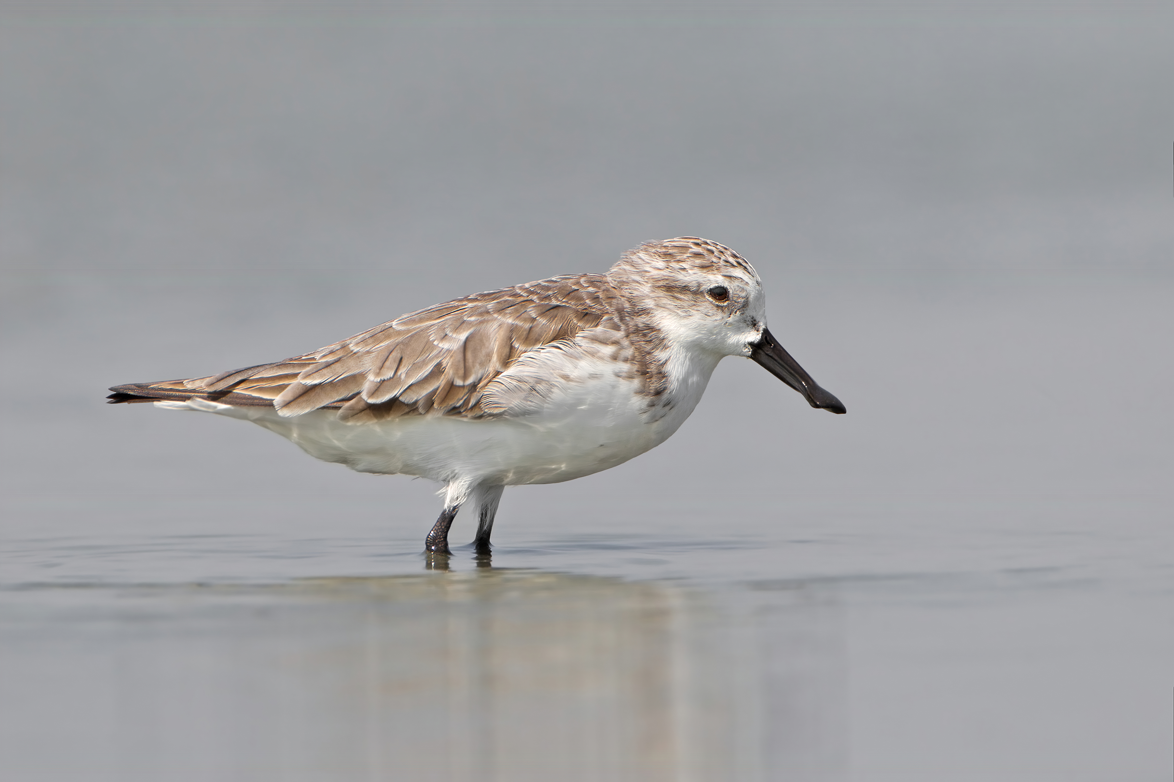 Spoon-billed Sandpiper (Eurynorhynchus pygmeus), Pak Thale, Petchaburi, Thailand